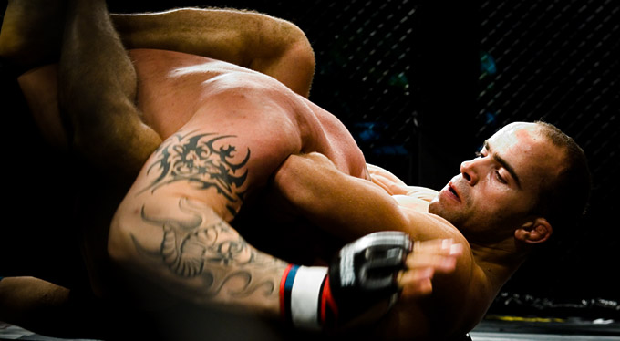 Giving up the fight. Some pictures from the European Vale Tudo / Cage Challenge in Solnahallen, Stockholm, Sweden in 2005. In this picture: Rafael Silva. See more from the same event here: If there are any MMA-guys watching, do you think the pictures are any good? It was my first time covering a sports event like this. More of everything at